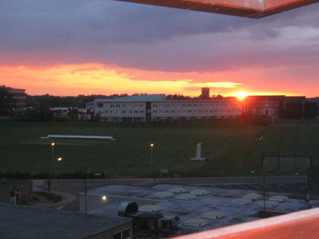 View from the East Tower. Taken from Towers hall of residence, it centres on the cricket pitch in the centre of Loughborough University campus